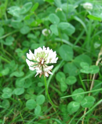 White clover, photographed in England by Heron 16:46, 20 Jun 2004 (UTC).